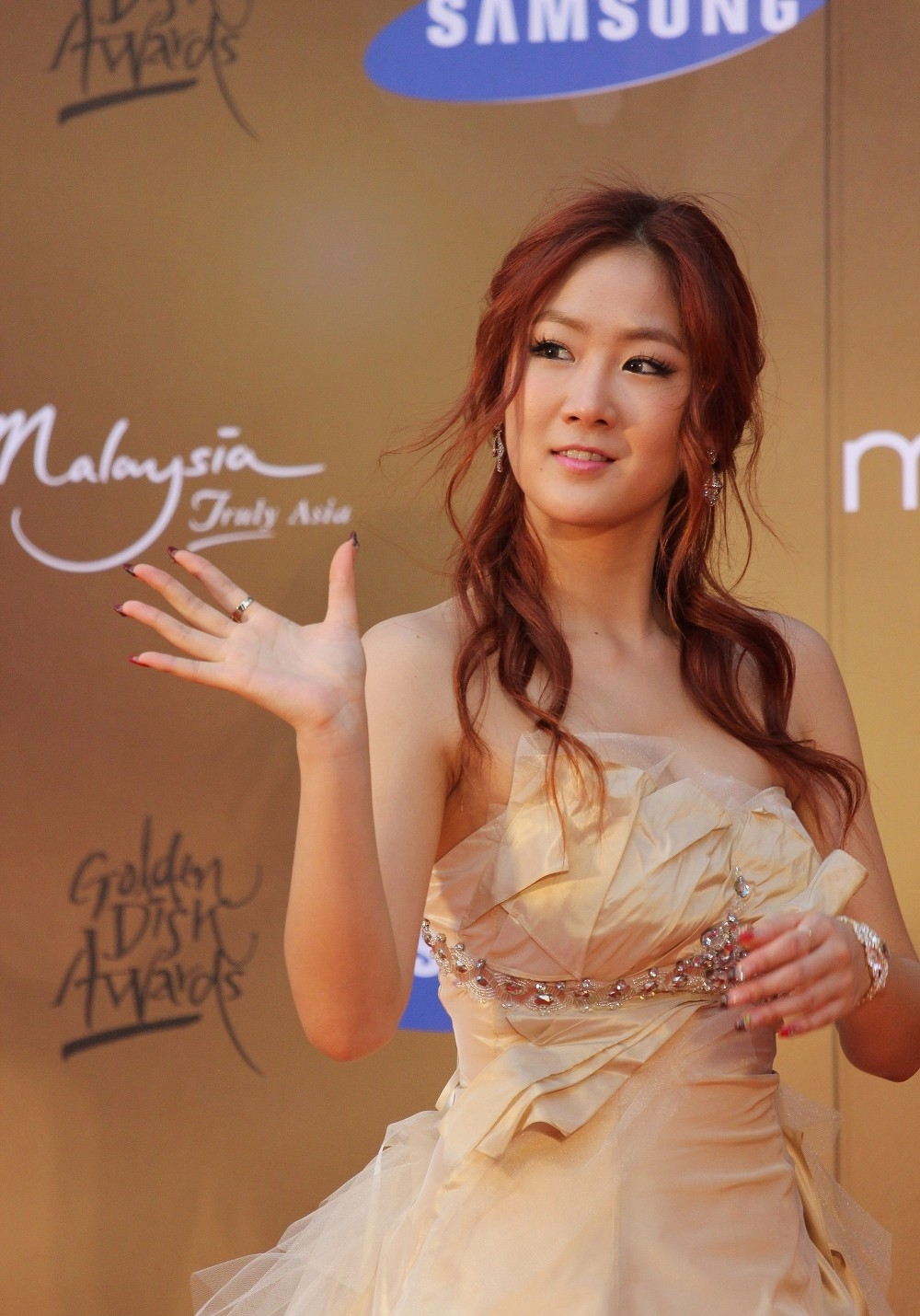 Soyou at Golden Disk Awards Red Carpe